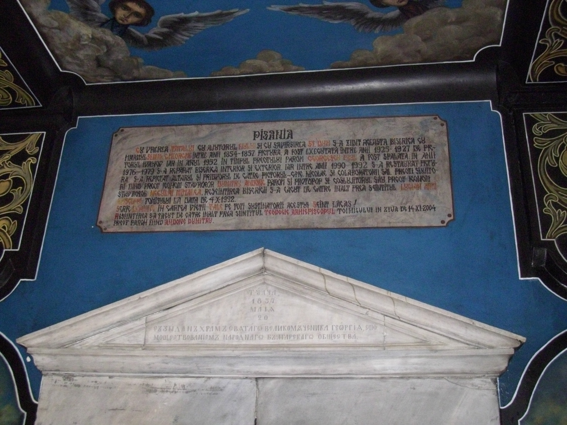 Bulgarian church "Saint George" in Tulcea, Romania.